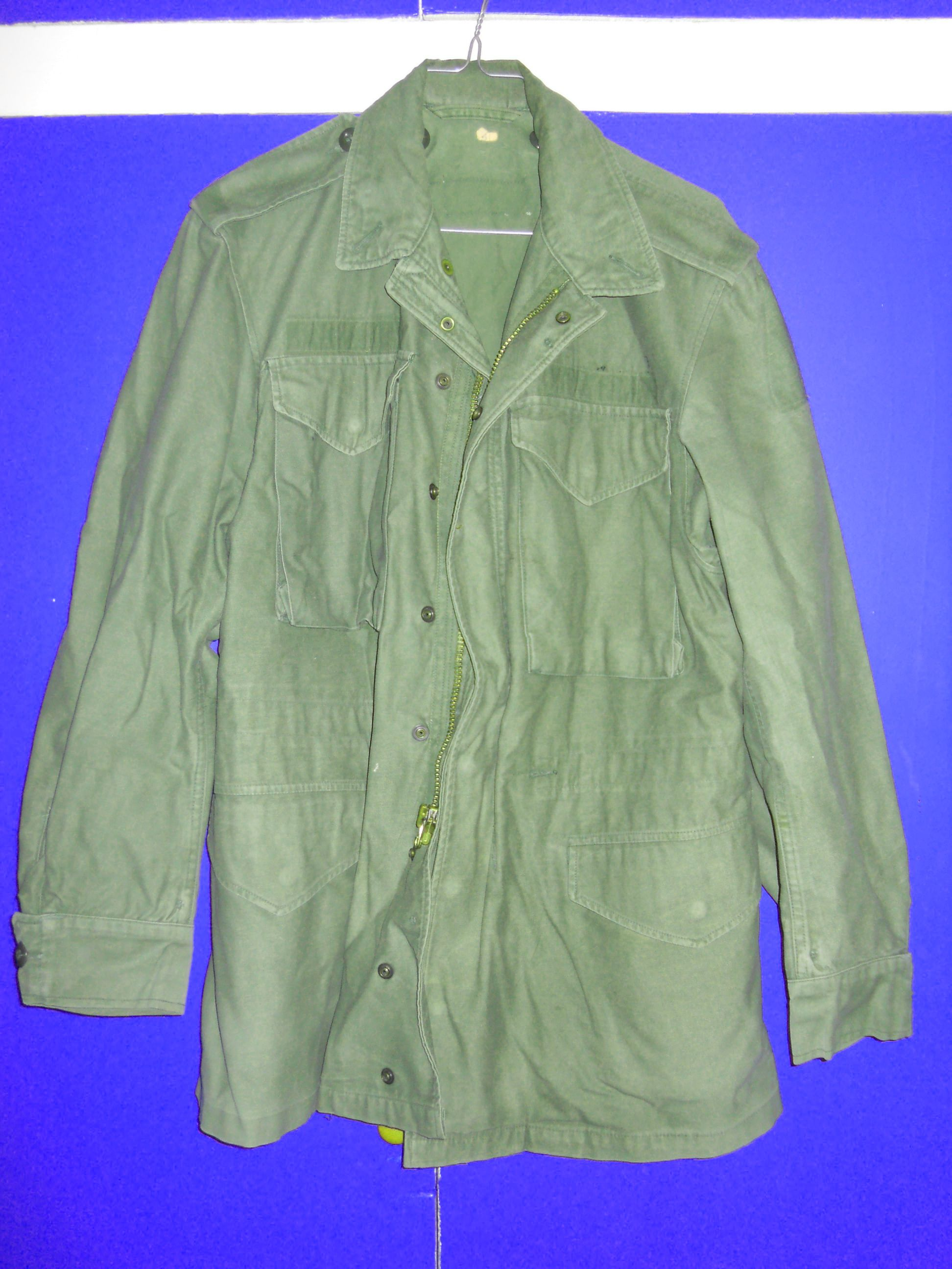 US Army M-1951 field jacket.